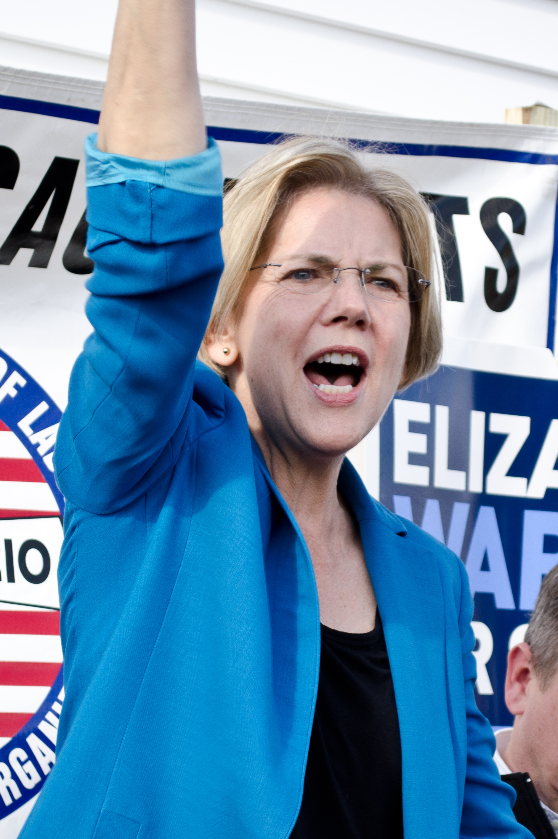 Elizabeth Warren at a campaign rally in Auburn, Massachusetts, Nov 2, 2012.